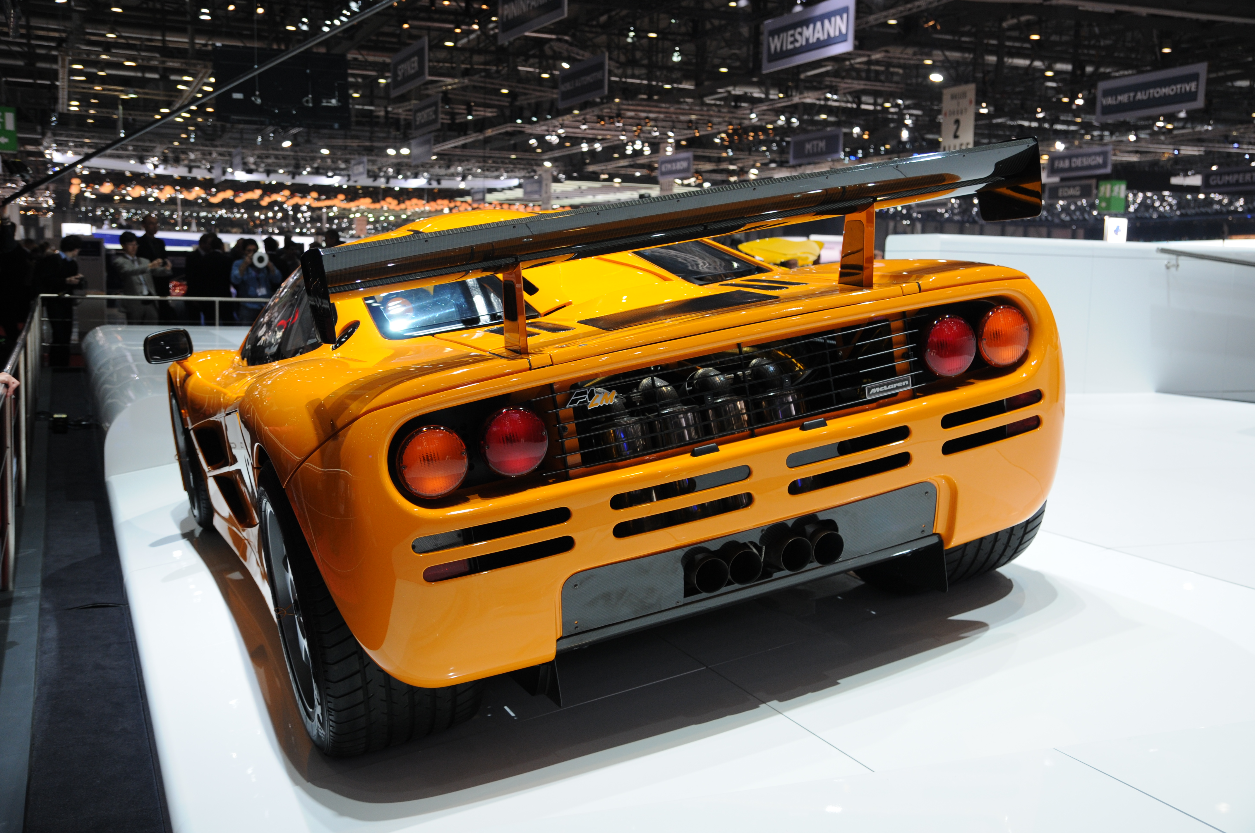 Geneva Motor Show 2013 (photos taken on the first press day)